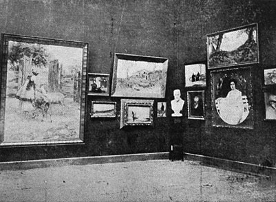 A view of the modern Greek art exhibition in Rome, 1911